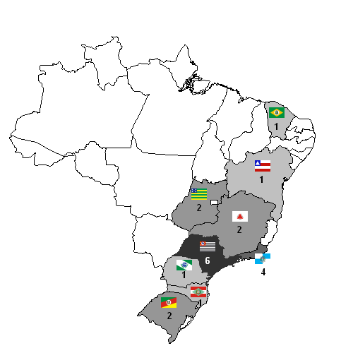 Mapa Times na Serie A